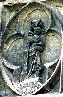 macée de leodepart